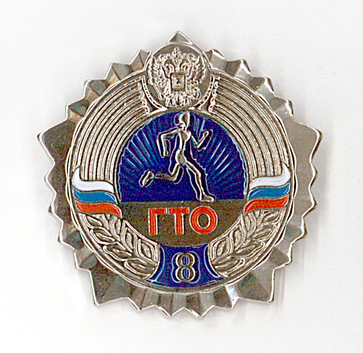 Sport badge Ready for Labor and Defense of Russia